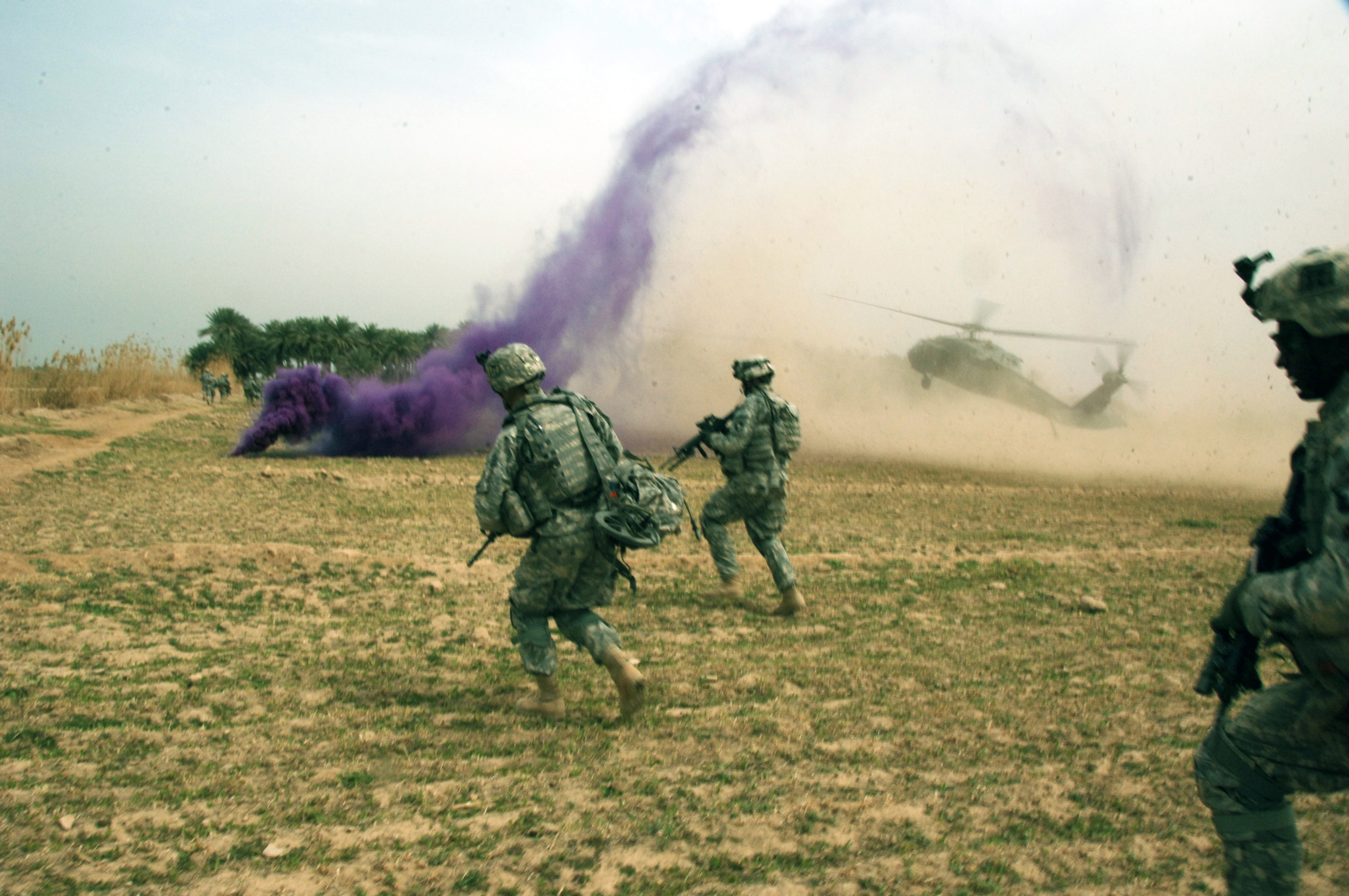 Soldiers from 1st Platoon, Company A, 3rd Battalion, 187th Infantry Regiment, 101st Airborne Division, run to a Black Hawk helicopter after conducting a search for weapons caches in Albu Issa, Iraq.